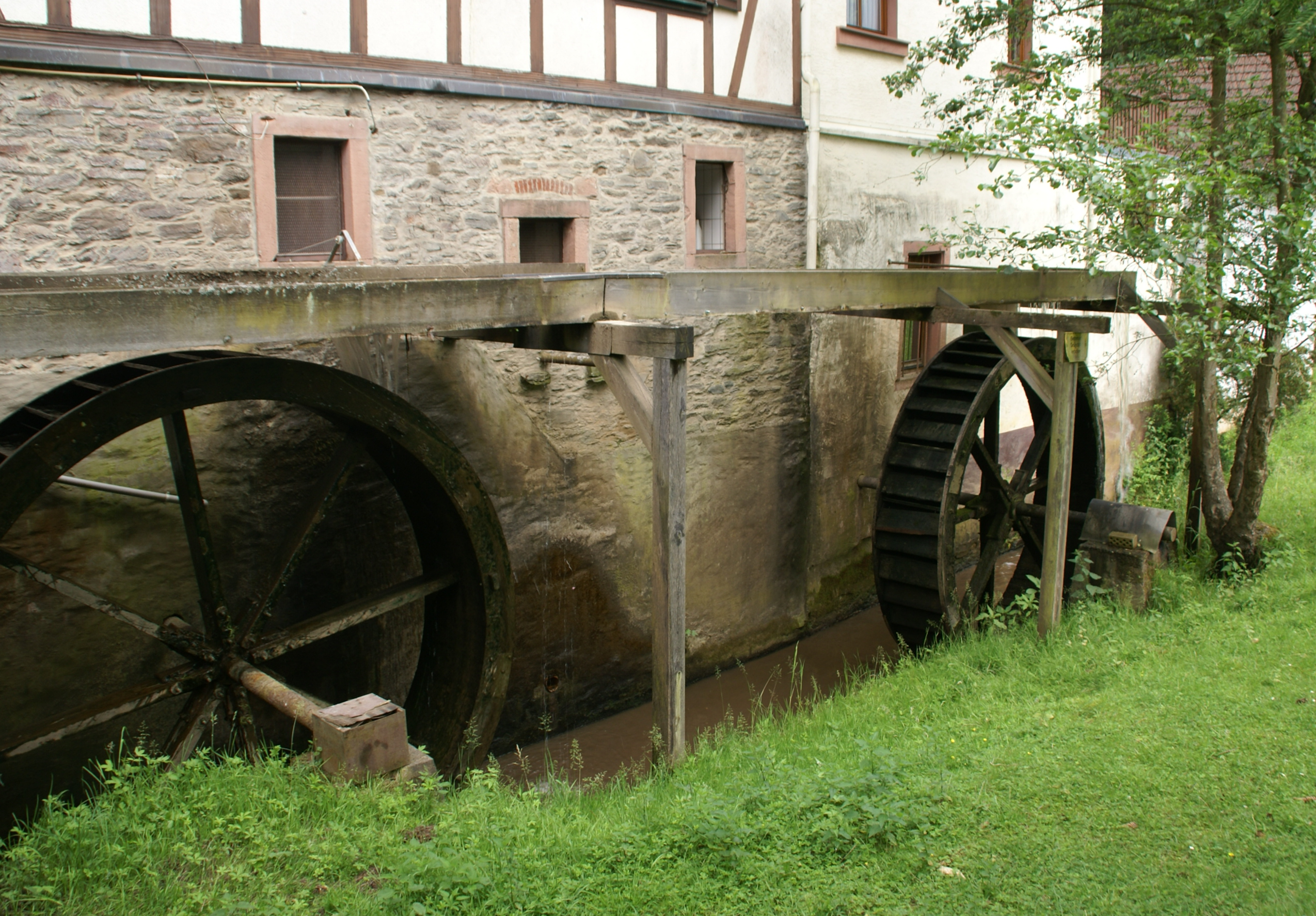 The water wheels of the former Heimbacher Mühle